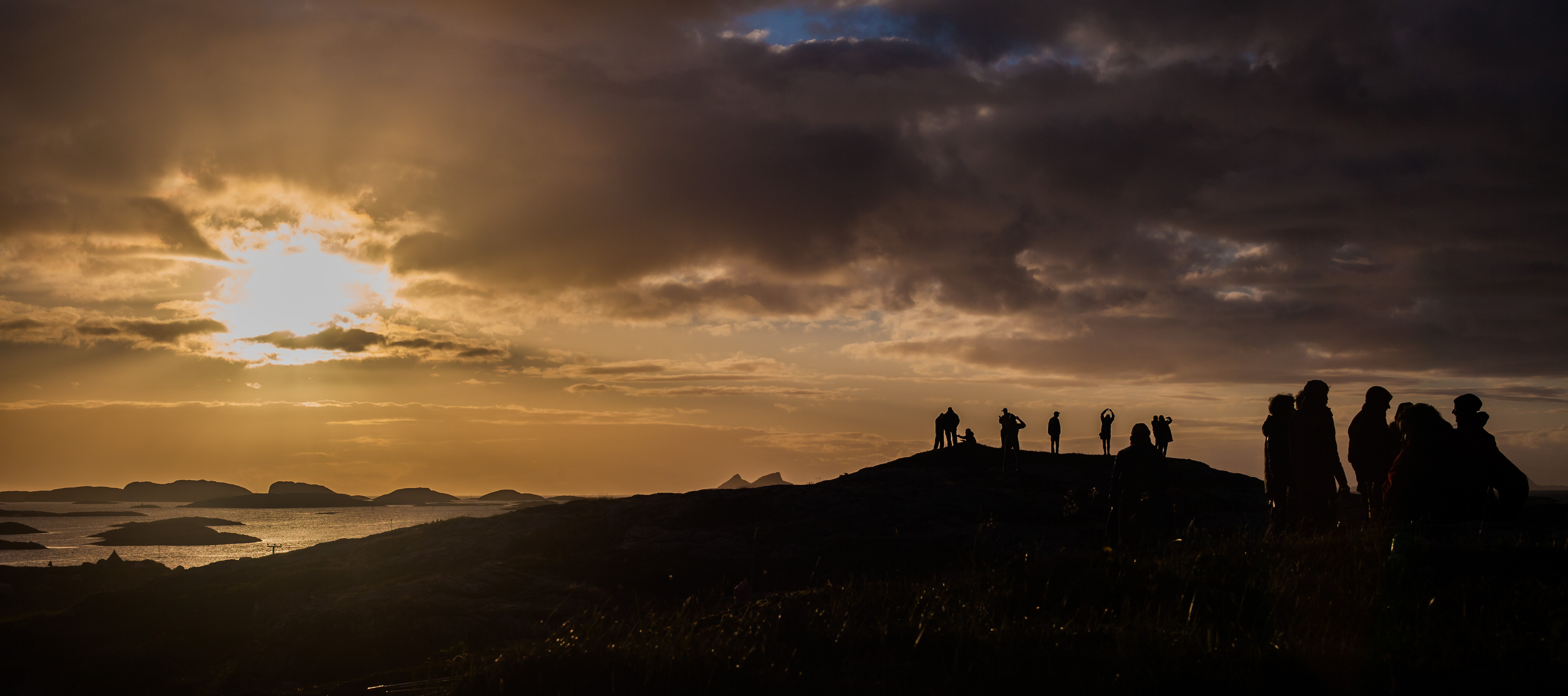 Træna festival 2013 during Biosphere concert.